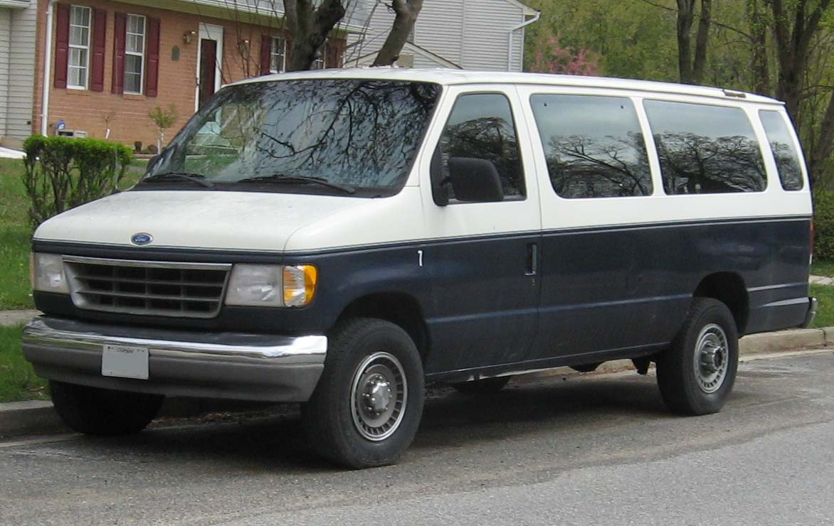 1992-1996 Ford Club Wagon photographed in USA.